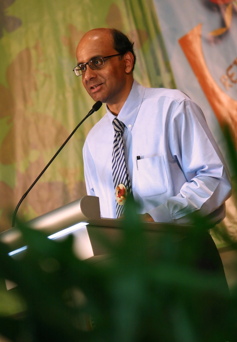 Tharman Shanmugaratnam at the official opening of Yuan Ching Secondary School's new building, Singapore.